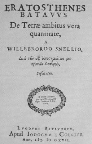 Frontispiece of Willebrord Snellius' Eratosthenes Batavus.